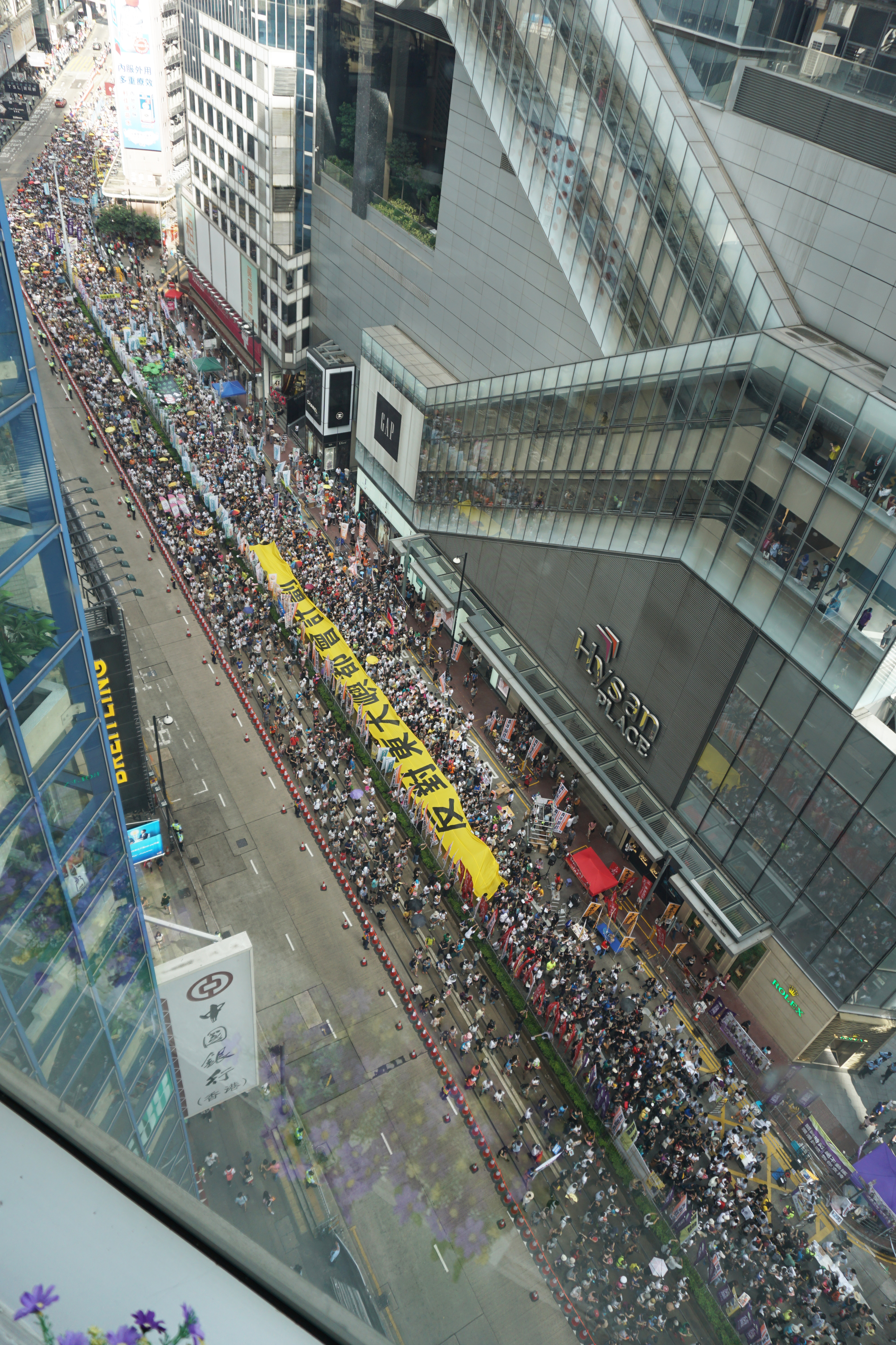 1st July 2016 marches in Hong Kong.